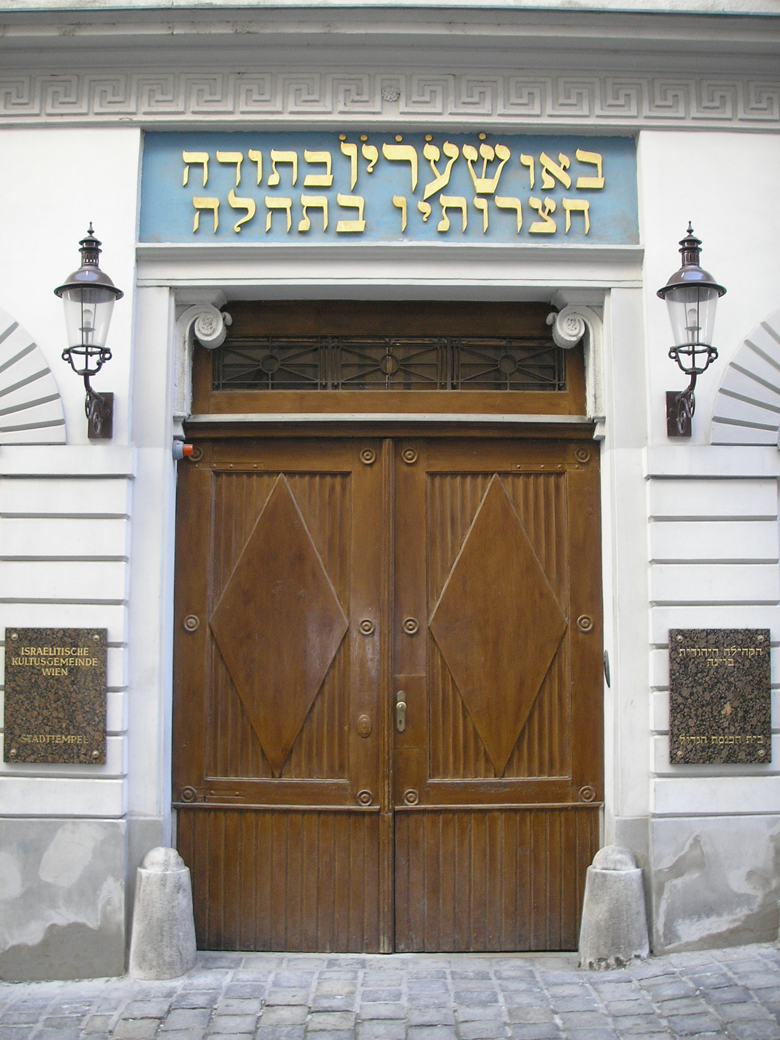 Image of the main entrance of the Stadttempel in Vienna.